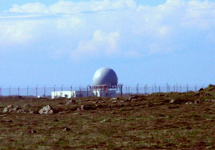 IADS radar site on Miðnesheiði